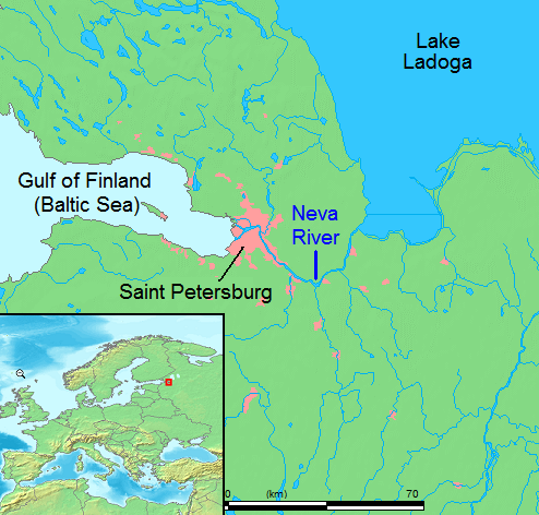 original image modified to include labels and pointers and insert (from same source)by jauntymcd This image is in the public domain because came from the site and was released by the copyright holder. Permission is granted to copy, distribute and/or modify this map since it is based on free of copyright images from: See also approval email on de.wp.